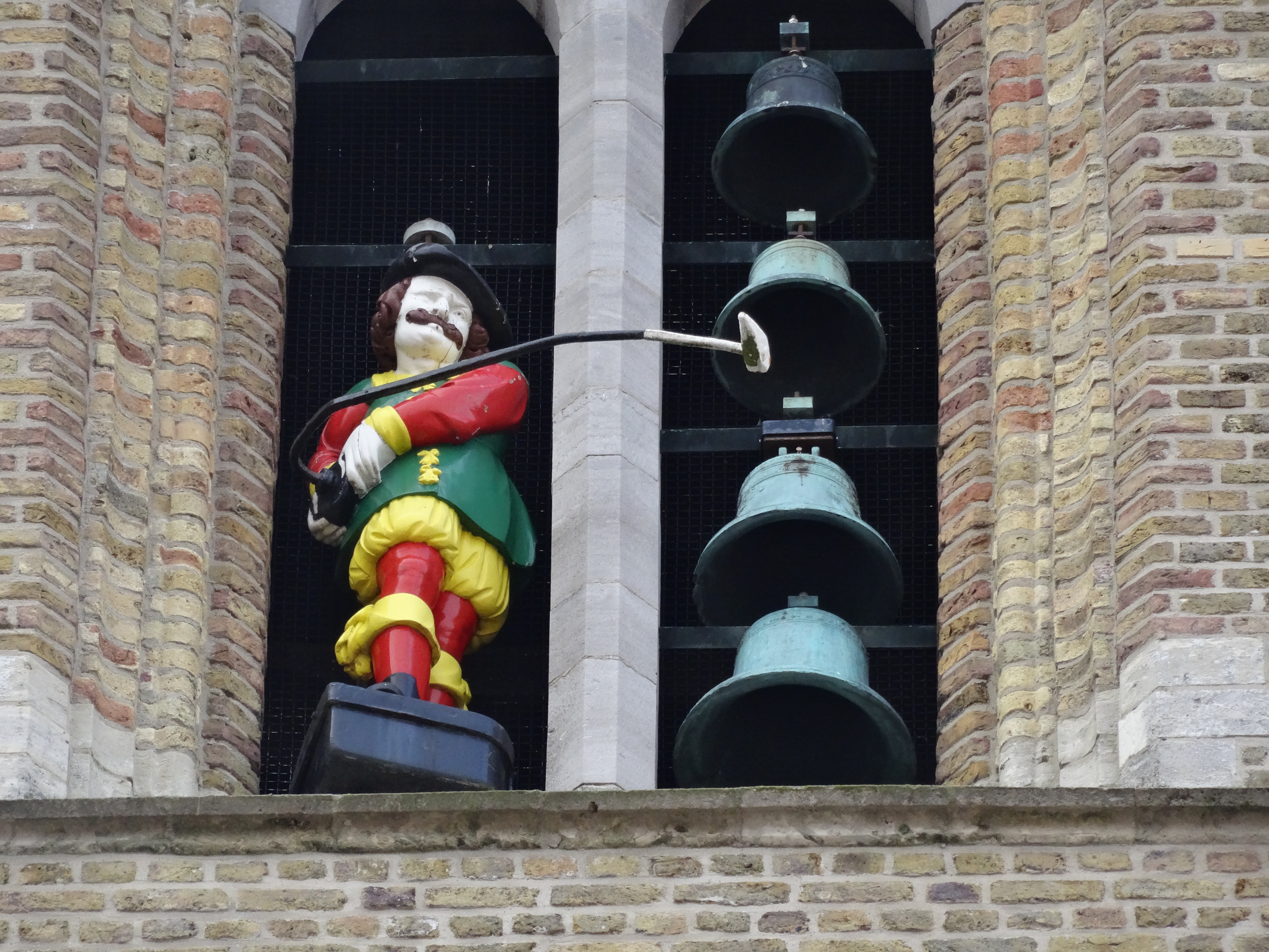 Jantje van Sluis